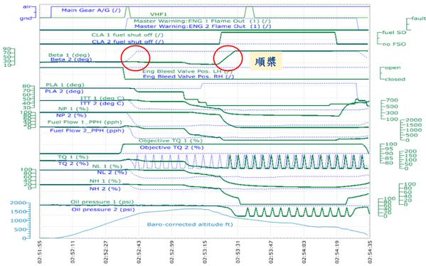 Flight Data Recorder readout of TransAsia flight #GE235 ASC: wrong engine shut down after failure